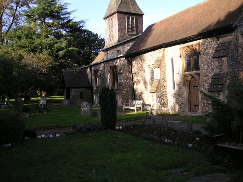 Photograph of St Stephen's Church, St Albans (October 2006)